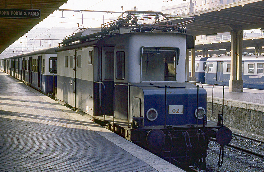 1925 Roma - Lido di Ostia line loco 02 still in service in 1988. Seen at Porta San Paolo station in Rome. Scanned from a Kodachrome 35mm slide.